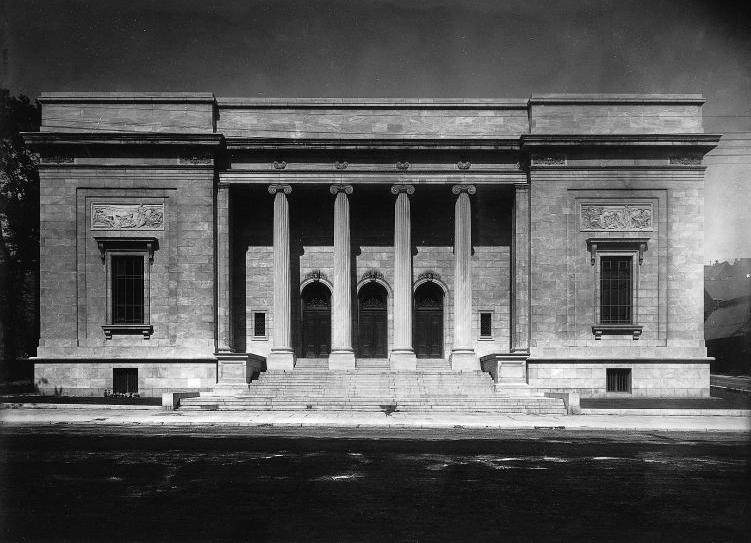 Photograph, New Art Gallery, Sherbrooke Street, Montreal, QC, 1913, Wm. Notman & Son. Silver salts on glass - Gelatin dry plate process - 20 x 25 cm